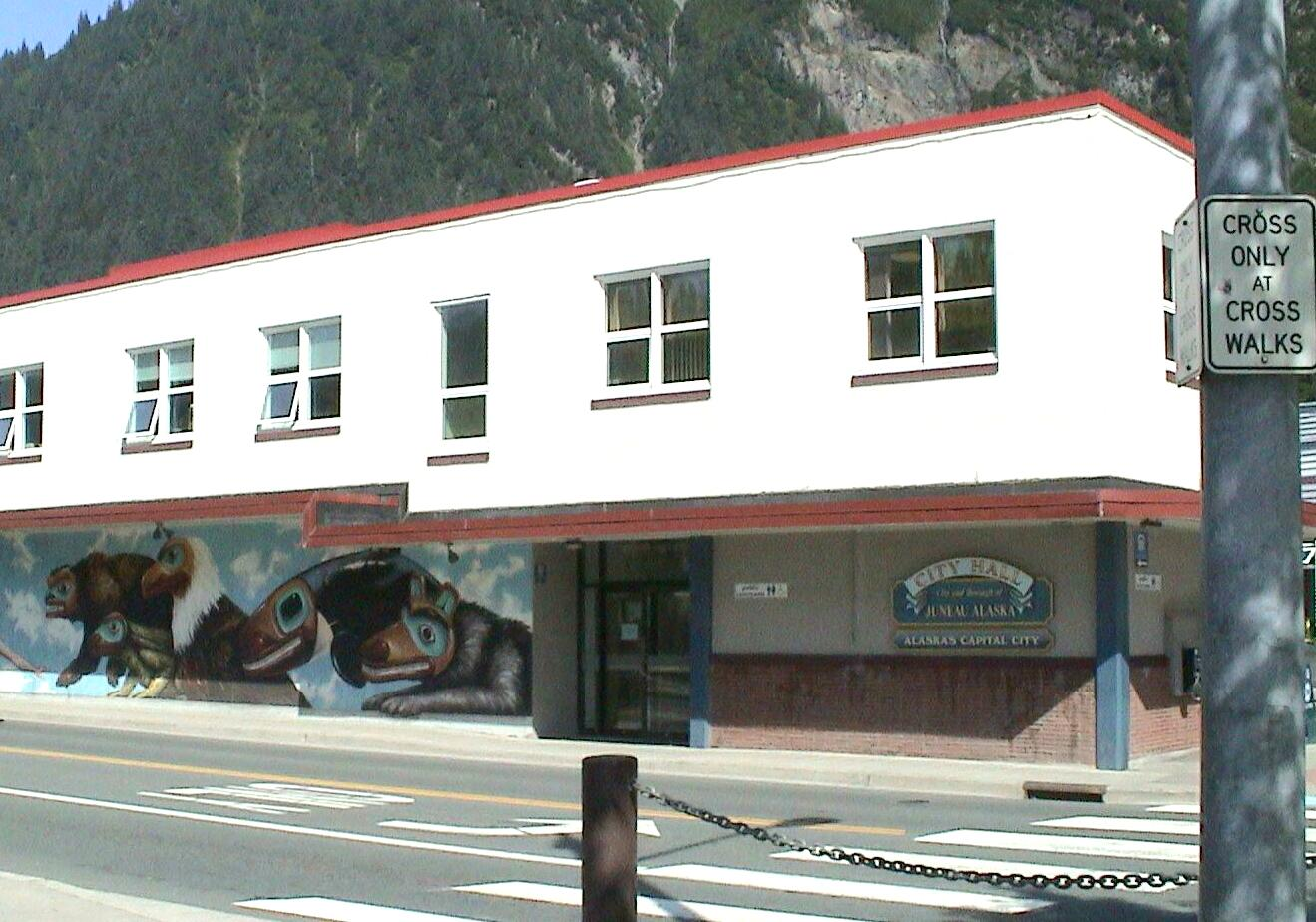 This is a picture of a City Hall in Juneau, Alaska. I (Eric V. Blanchard) took this photo in August 2003. I permanently relinquish all rights to the work. Evb-wiki 18:17, 22 December 2006 (UTC)